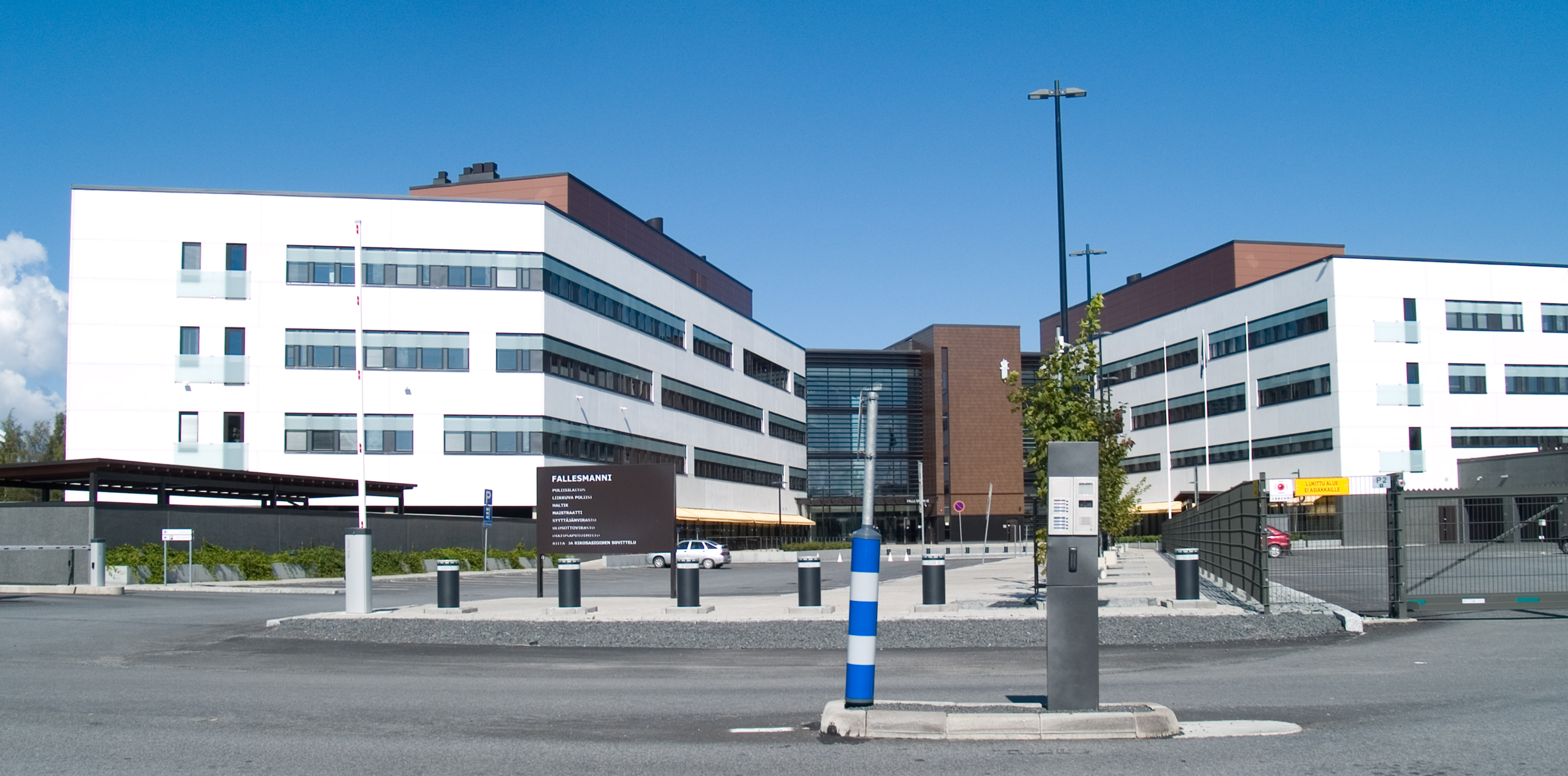 Fallesmanni office building for police and legal authorities, Jouppi, Seinäjoki, Finland.